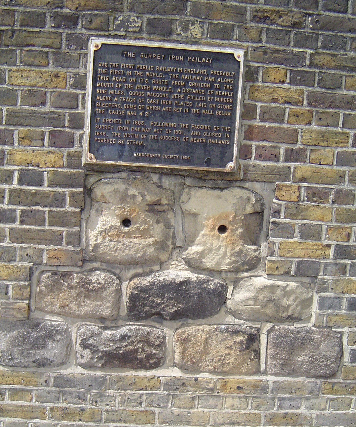 Plaque and original stone sleepers of the Surrey Iron Railway set in the wall of Youngs Brewery in Wandsworth